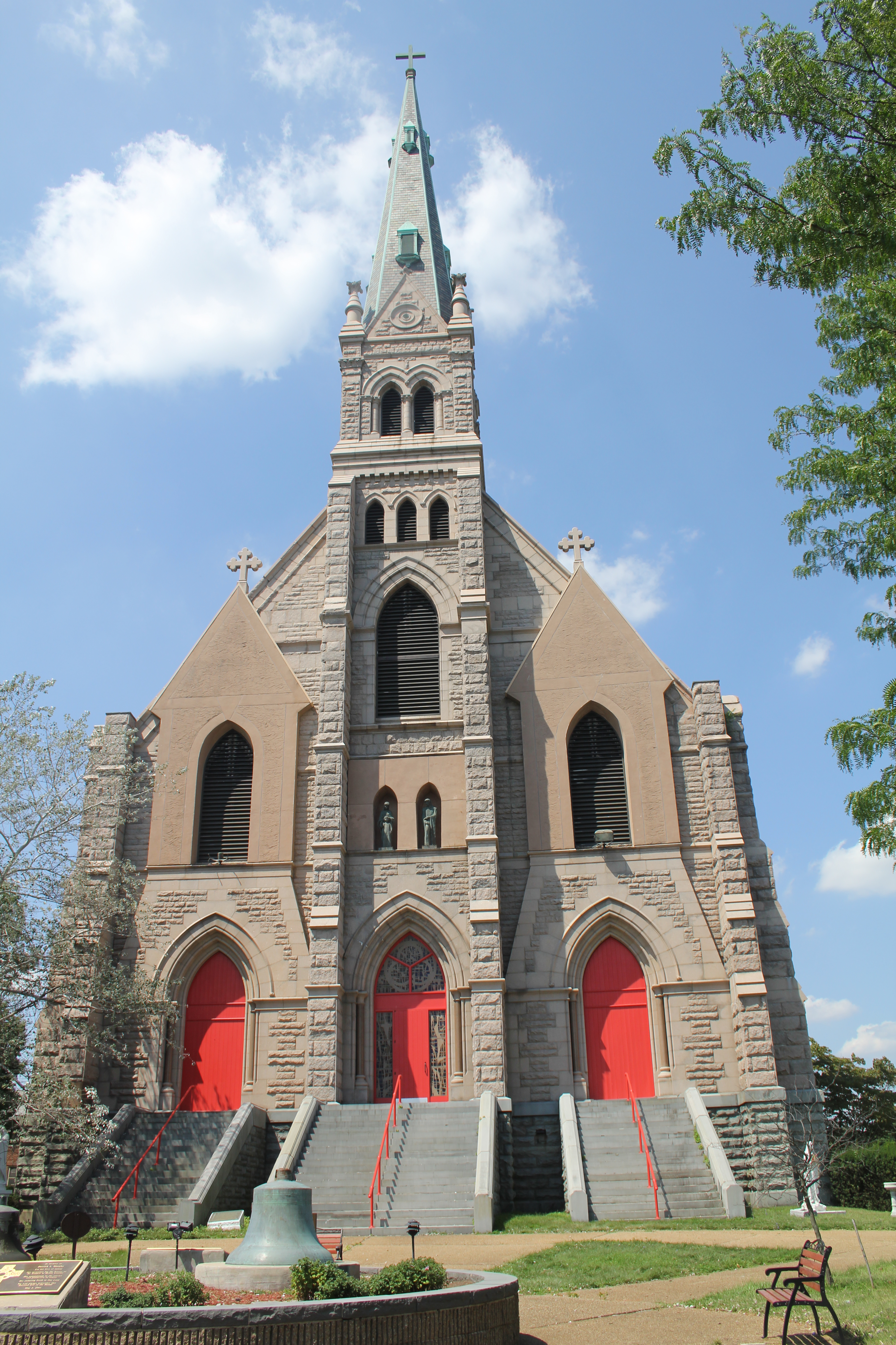 The facade of the Old Church of St. Joachim and St Anne in the Pleasant Plains section of Staten Island, NY. The church stood on the grounds of the Mission of the Immaculate Virgin at Mount Loretto, a children's home and orphanage that was founded in the 1870s by Father John Drumgoole, and it largely served the children and staff there. The cornerstone for the church was laid in 1891, nearly three years after Drumgoole's death. Only the facade of the church, shown here, survived a serious fire in 1973. However the church was rebuilt in 1976, keeping the old facade. This shows how it looked in August 2015.